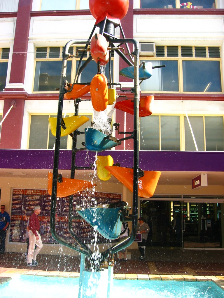 Cuba Mall 'Bucket' Fountain